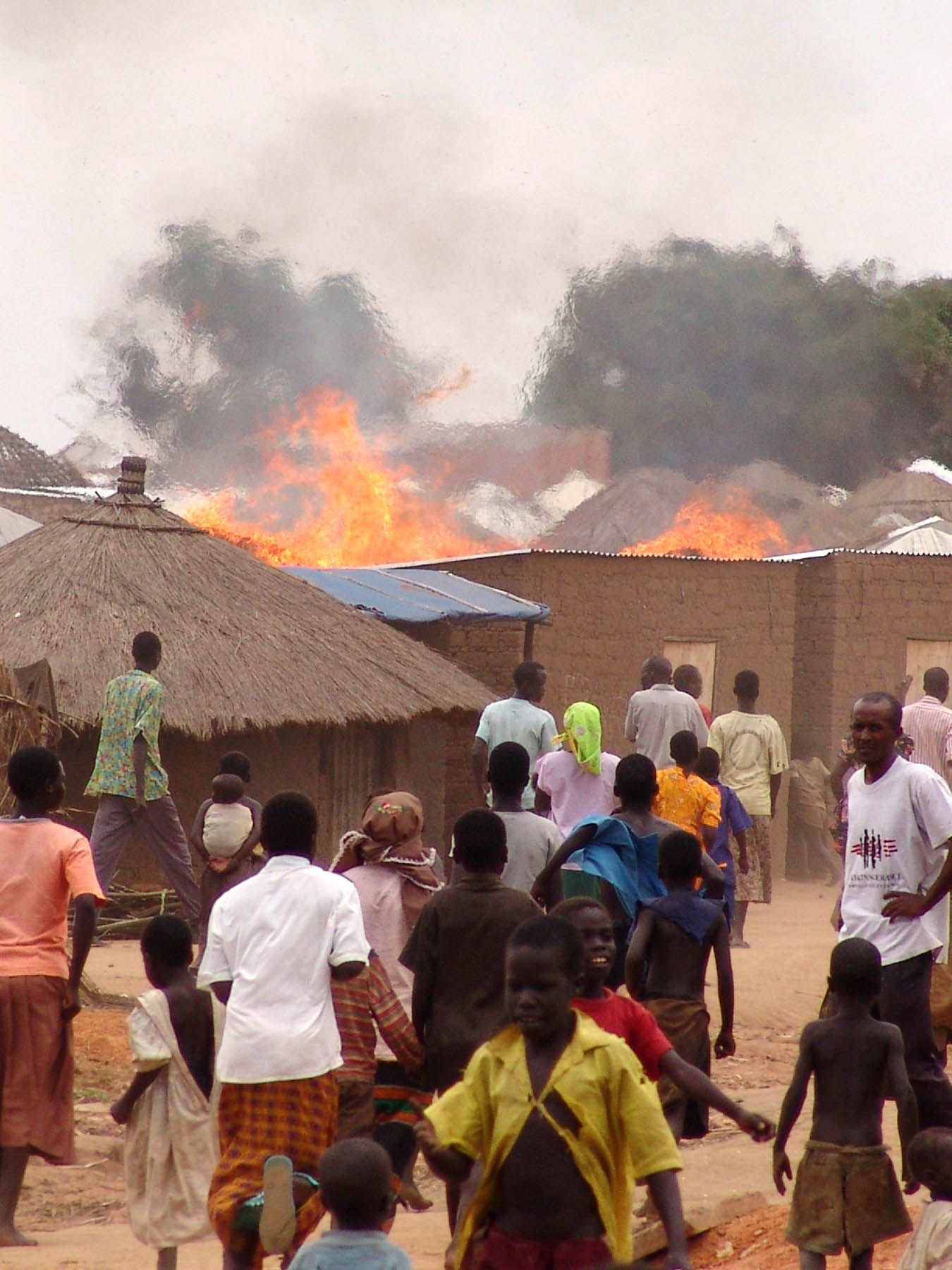 Original caption states "Fire in a camp for internally displaced persons." Original file name "ug2_parabongo_fire_05" indicates that this is Parabongo IDP camp located in northern Uganda.